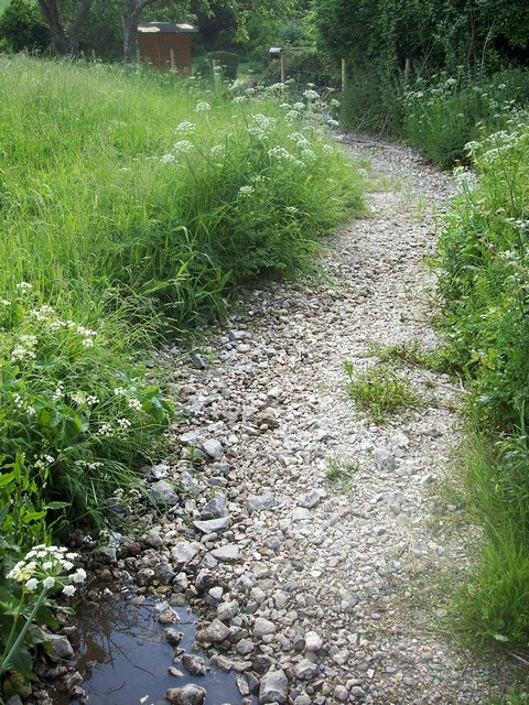 River Winterborne Already drying at the end of May.